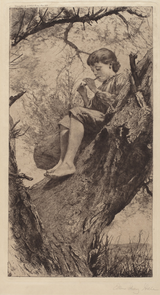 Ellen-day-hale-the-willow-whistle-1888